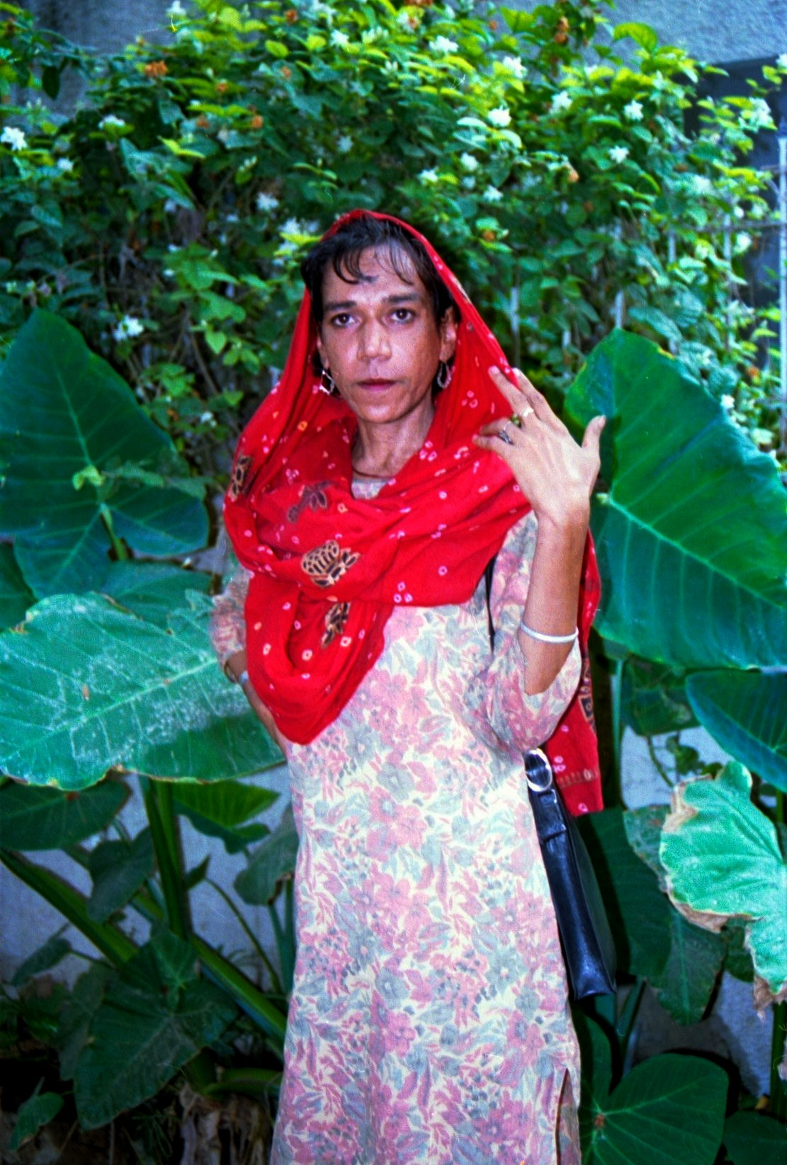 "Most hijras live at the margins of society with very low status; the very word "hijra" is sometimes used in a derogatory manner. Few employment opportunities are available to hijras. Many get their income from performing at ceremonies, begging, or prostitution — an occupation of eunuchs also recorded in premodern times. Violence against hijras, especially hijra sex workers, is often brutal, and occurs in public spaces, police stations, prisons, and their homes. As with transgender people in most of the world, they face extreme discrimination in health, housing, education, employment, immigration, law, and any bureaucracy that is unable to place them into male or female gender categories. One hijra reports waiting in the emergency room of a hospital for hours while medical staff debated whether to admit her to the men's or women's ward." Wikipedia.